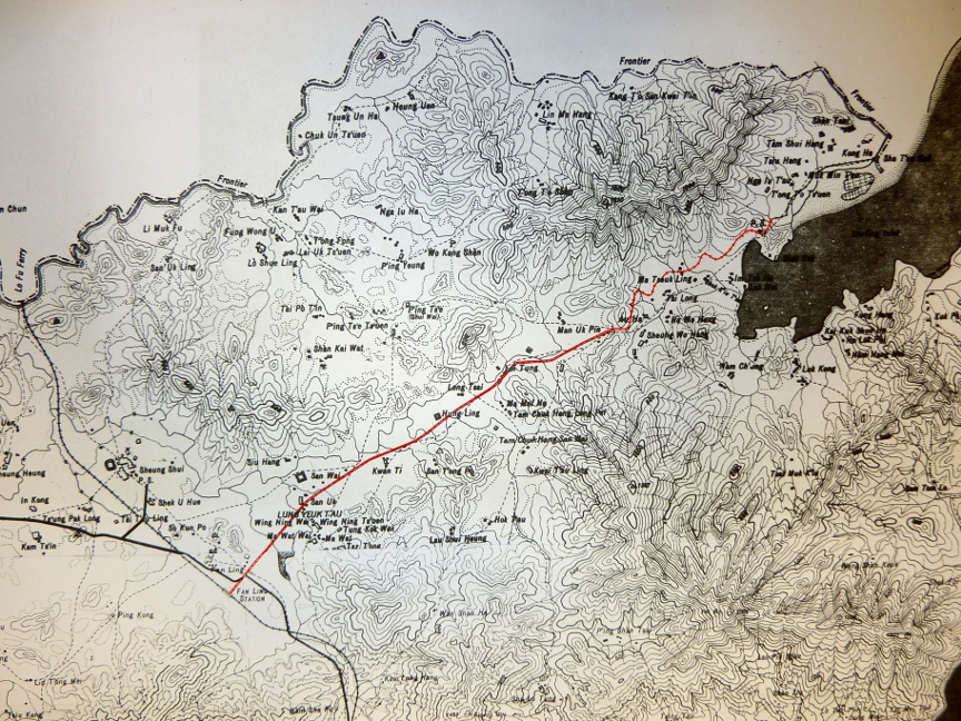 Map of alignment of Fan Ling to Sha Tau Kok narrow gauge railway